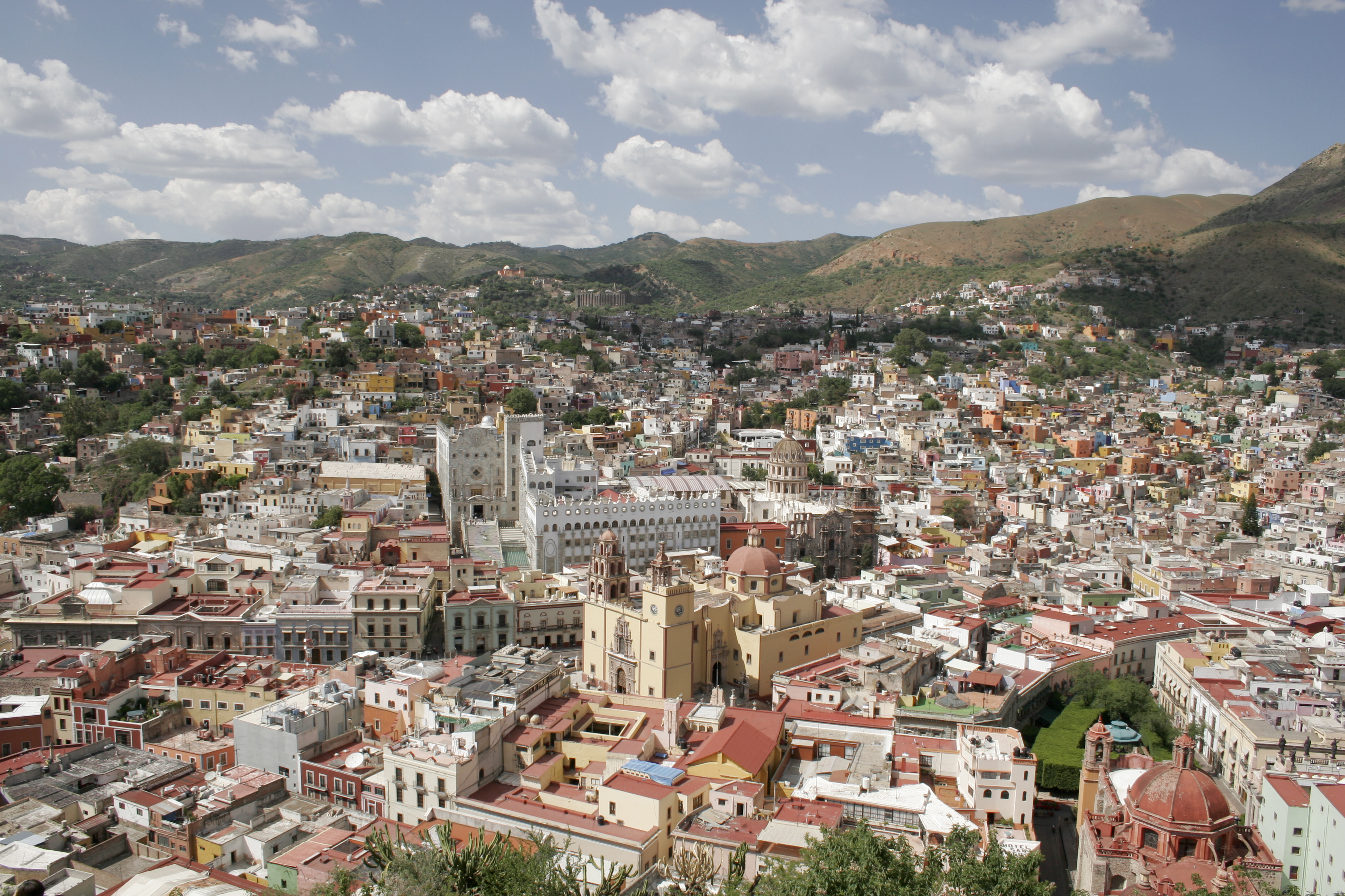 View of Guanajuato City, Mexico